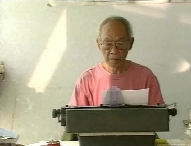 Pramudya Ananta Toer, Indonesian author